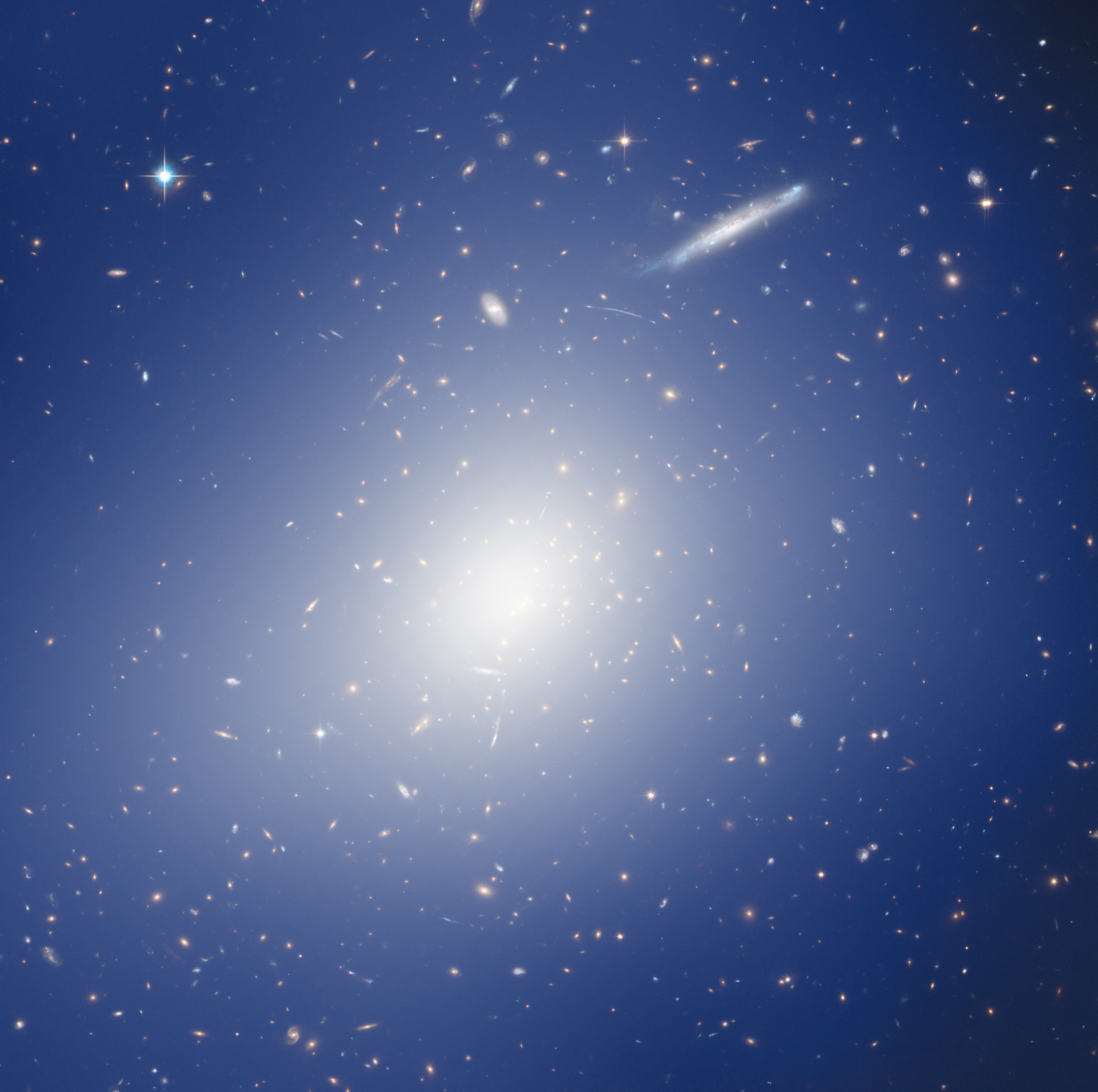 HAWK-I and Hubble Explore a Cluster with the Mass of two Quadrillion Suns This image shows something spectacular: a massive galaxy cluster that it is warping the space around it! The cluster, whose heart is at the centre of the frame, is named RCS2 J2327, and is one of the most massive clusters known at its distance or beyond. Massive objects such as RCS2 J2327 have such a strong influence on their surroundings that they visibly warp the space around them. This effect is known as gravitational lensing. In this way, they cause the light from more distant objects to be bent, distorted, and magnified, allowing us to see galaxies that would otherwise be far too distant to detect. Gravitational lensing is one of the predictions of Einstein's theory of general relativity. Strong lensing produces stunning images of distorted galaxies and sweeping arcs; both of which can be seen in this image. Weak gravitational lensing, on the other hand, is more subtle, hardly seen directly in an image, and is mostly studied statistically — but it provides a way to measure the masses of cosmic objects, as in the case of this cluster. This image is a composite of observations from the HAWK-I instrument on ESO’s Very Large Telescope and the NASA/ESA Hubble Space Telescope’s Advanced Camera for Surveys. It demonstrates an impressively detailed collaborative approach to studying weak lensing in the cosmos. The study found RCS2 J2327 to contain the mass of two quadrillion Suns! The diffuse blue and white image covering the picture shows a mass map. It is connected to the amount of mass thought to be contained within each region.